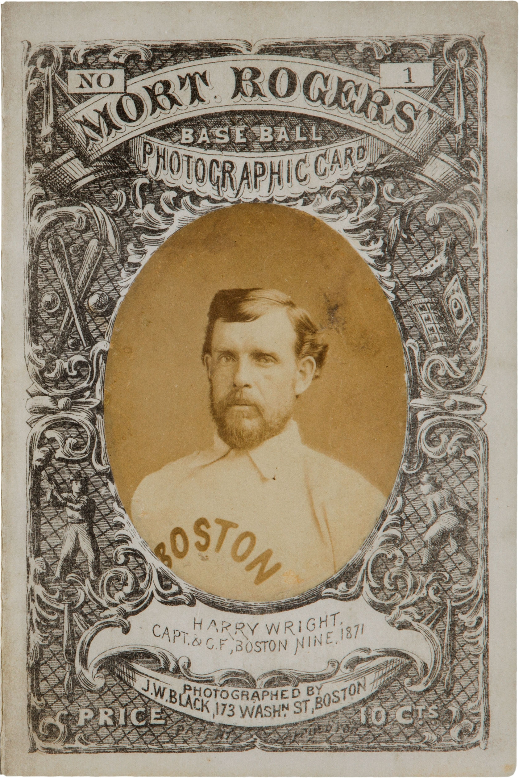 1872 Mort Rogers Boston Red Stockings vs. Baltimore Canaries Photographic Scorecard #1